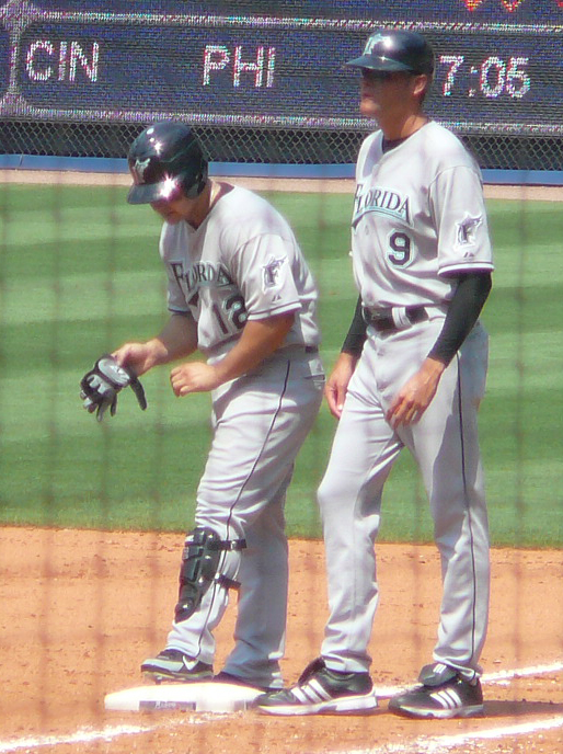 Please attribute photo with author's name if used somewhere other than Wikipedia. 19:55, 3 August 2008 . . Chrisjnelson . . 514×688 (349 KB)